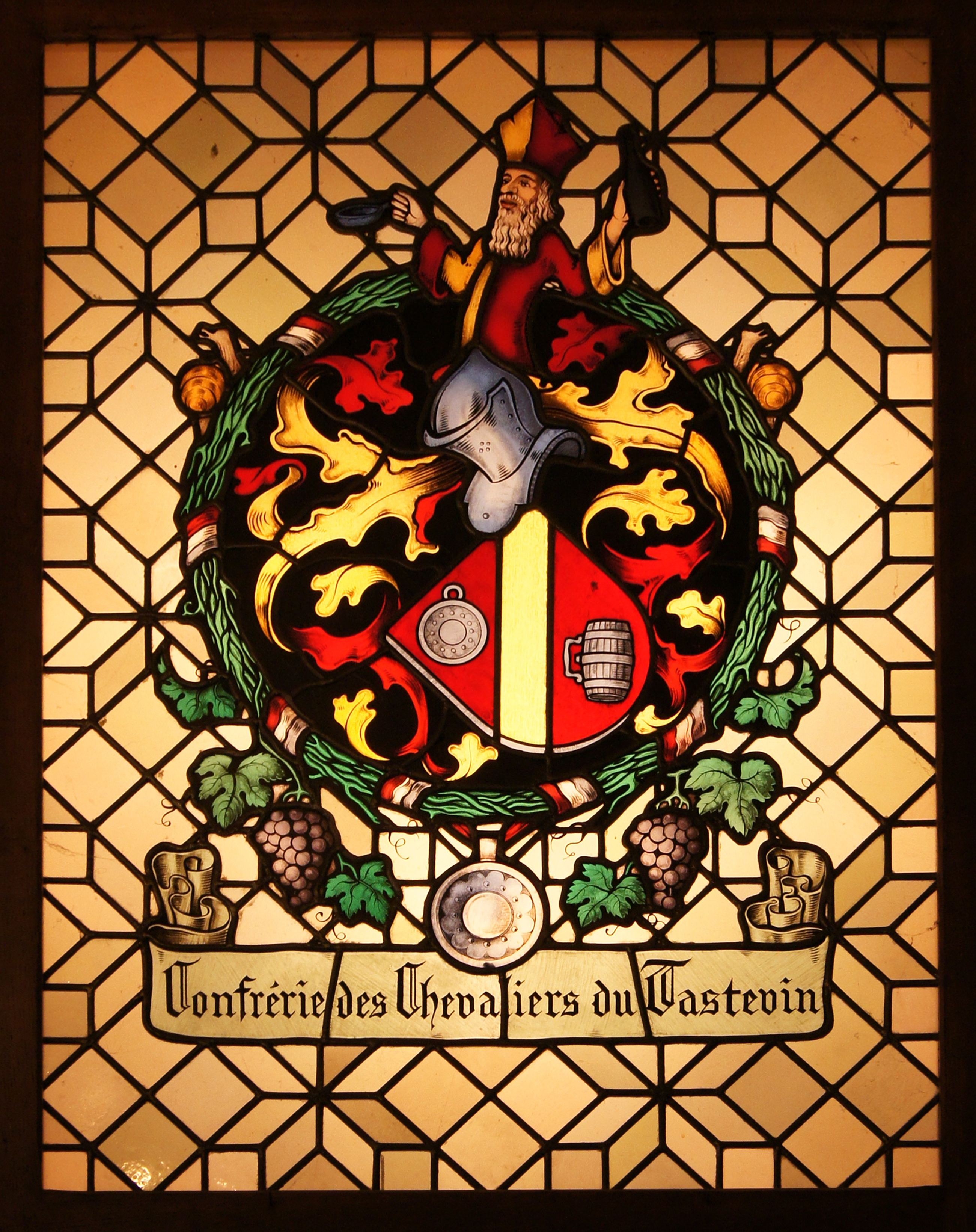 modern stain glass window, above the entrance of the "chapter house" of the "Chevaliers du Tastevin", in the castle of clos de Vougeot, Burgundy, France